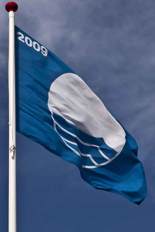 The Blue Flag, environment, 2009